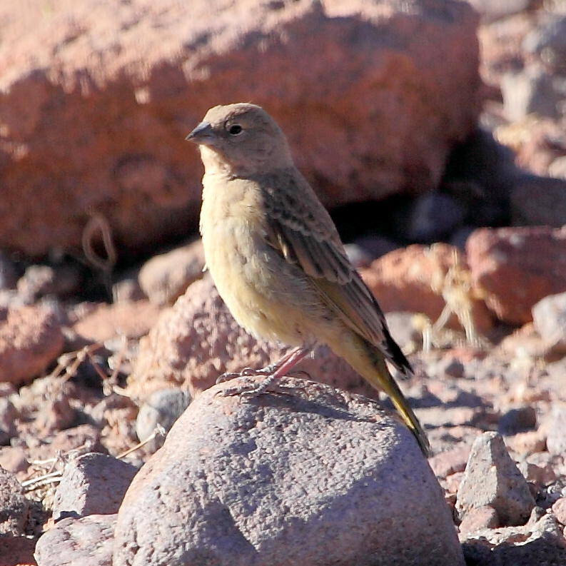 Grassland Yellow-Finch (female) at San Pedro de Atacama - Chile